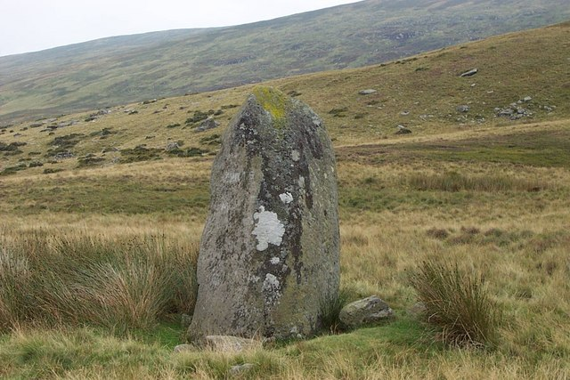 Bwlch y Ddeufaen Southeast Standing Stone. This is the larger Southeastern standing stone of Bwlch y ddeufaen at grid reference SH 71512 71772.